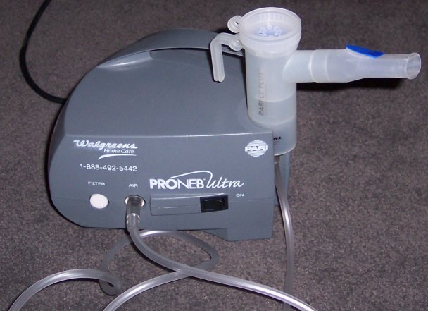 A Pari nebulizer and a portable compressor, usually referred to as a 'treatment machine.'